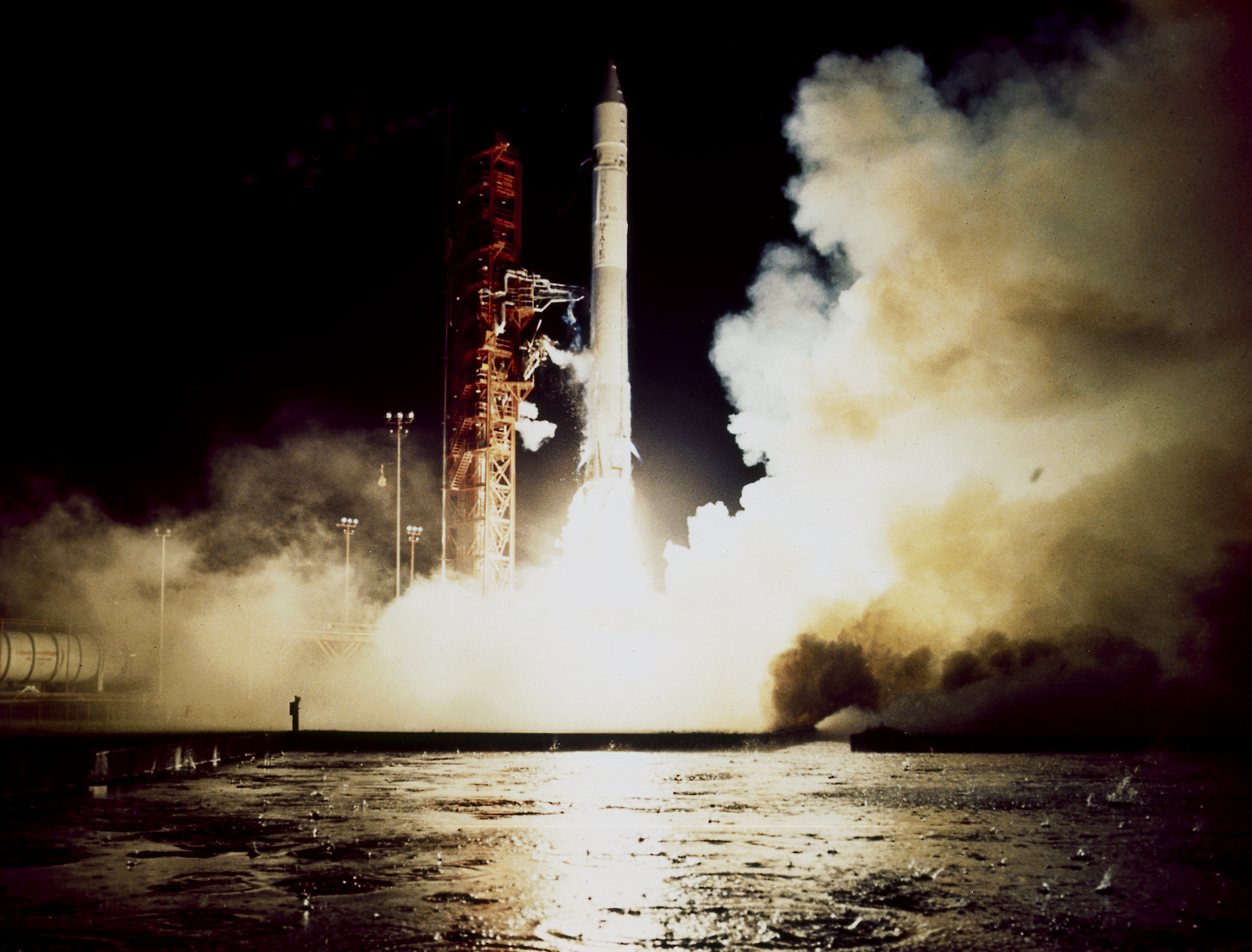 The launch of the Atlas-Centaur carrying the Pioneer G (11) spacecraft on April 5, 1973. The objects of this flight was to explore the planet Jupiter and its environment.